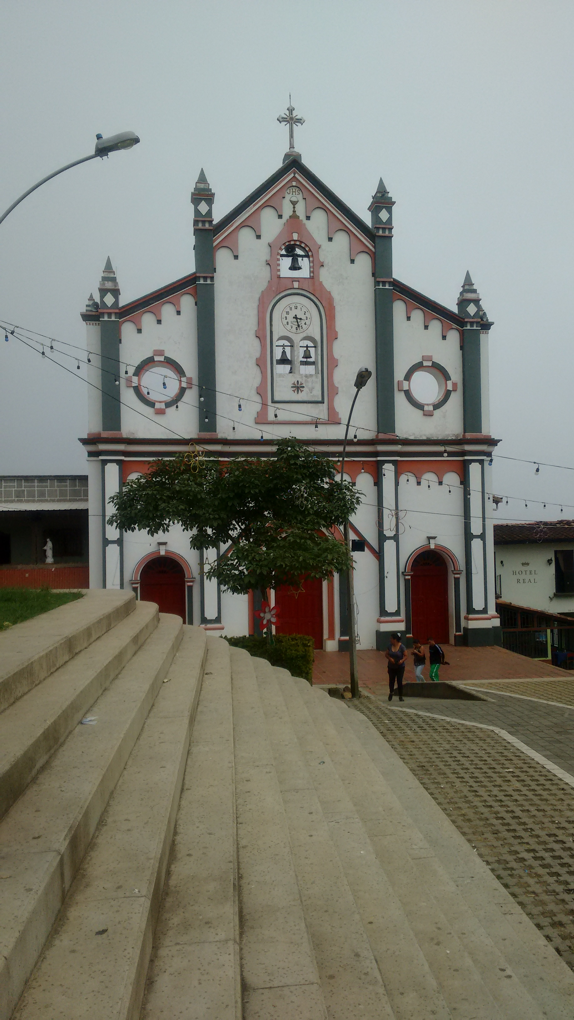 Iglesia de Nuestra Señora de Guadalupe